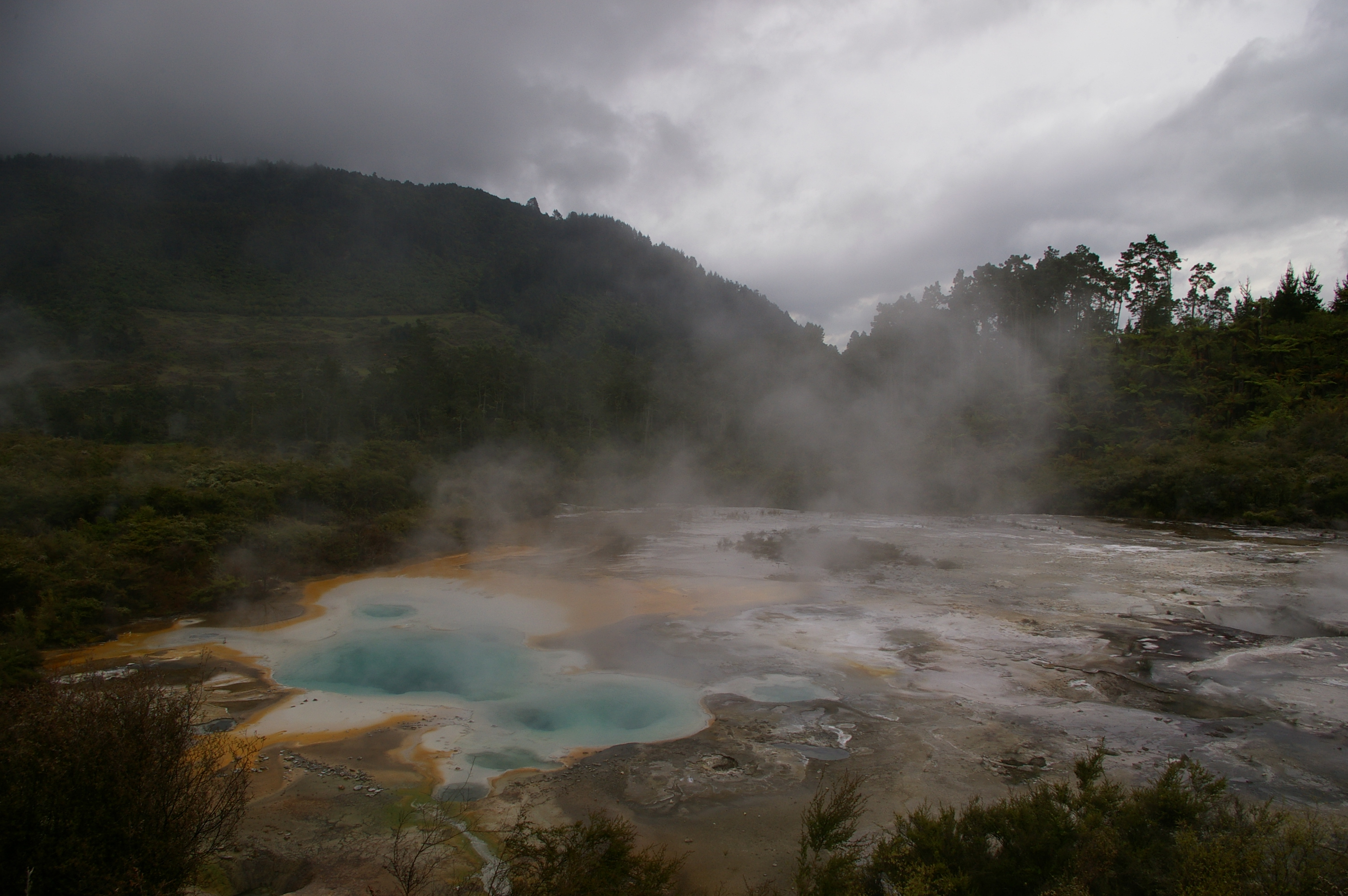 Took by my own